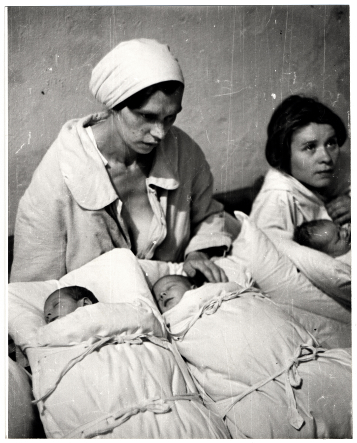 Siege of Warsaw by German forces in September of 1939: Two Polish mothers pose with their newborn infants during the siege of Warsaw. In September 1959 Julien Bryan wrote more about it in Look magazine: During one air raid in those tragic two weeks of the siege, I took shelter in a maternity hospital. Huddled on the cold stone floors of the basement were 50 mothers with their infants. Some of the mothers bore shrapnel wounds received when the hospital was shelled by the Nazi guns ringing Warsaw. It was there that I photographed a young mother with her twin boys. That mother, Mrs. Balbina Szymanska, came to the Express offices to meet me. She said that the boys and their father had been killed during the 1944 revolt, when the Poles, at the bidding of Radio Moscow, rose against their German conquerors. The Red Army failed to come to the aid of the Poles, and the Nazis crushed them ruthlessly. During Mrs. Szymanska's absence from home, on September 5, 1944, a shell blasted their house, killing the twins and their father. It was the boys' fifth birthday. She has remarried and now has three children by her second husband.